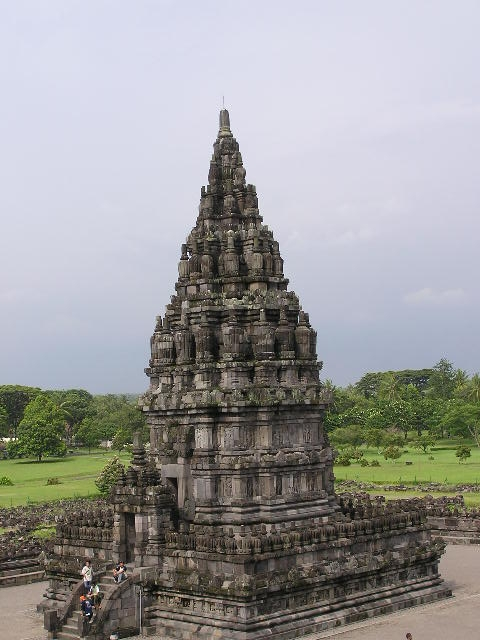 One of the shrines in Prambanan, central Java, Indonesia.